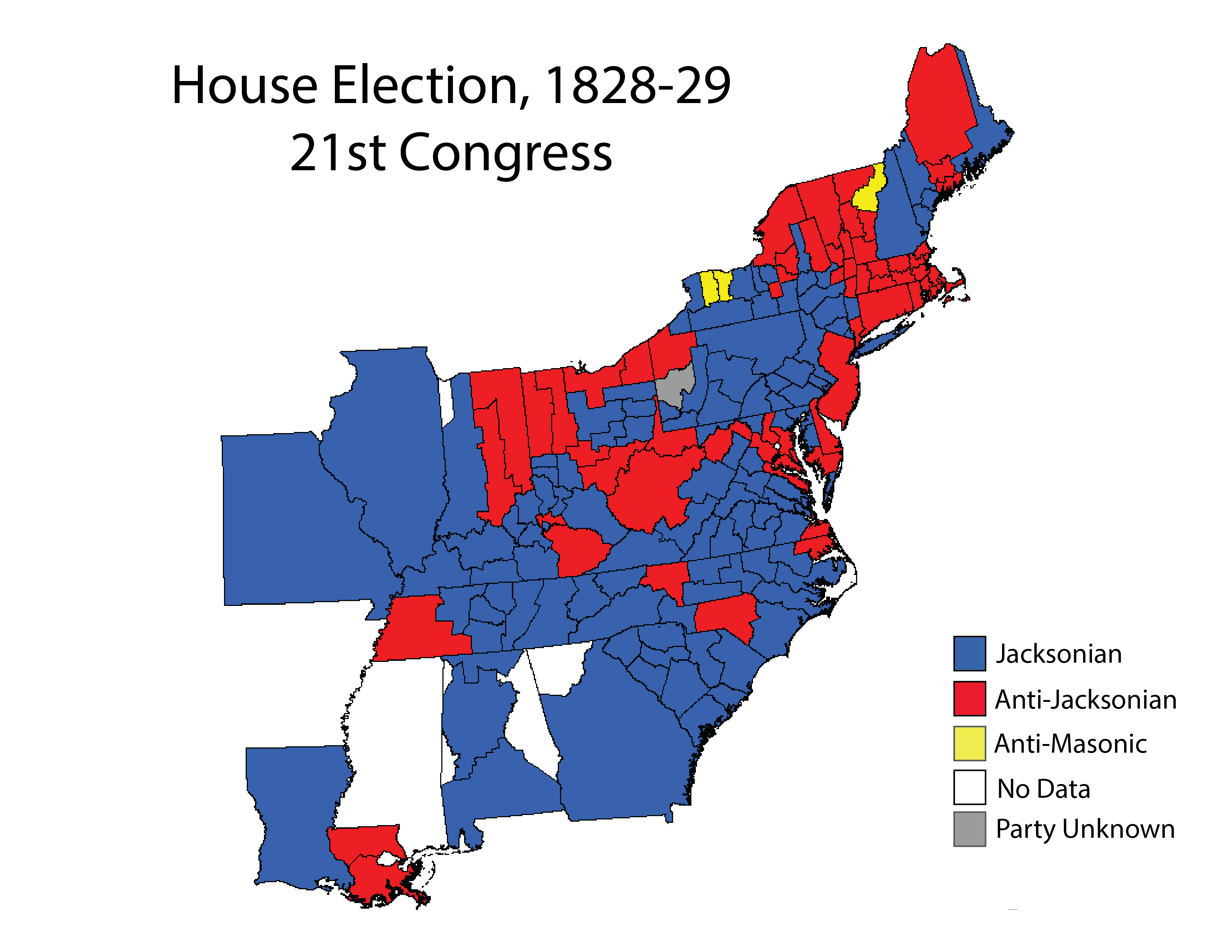 Map of U.S. House elections results from 1828-29 elections for 21st Congress